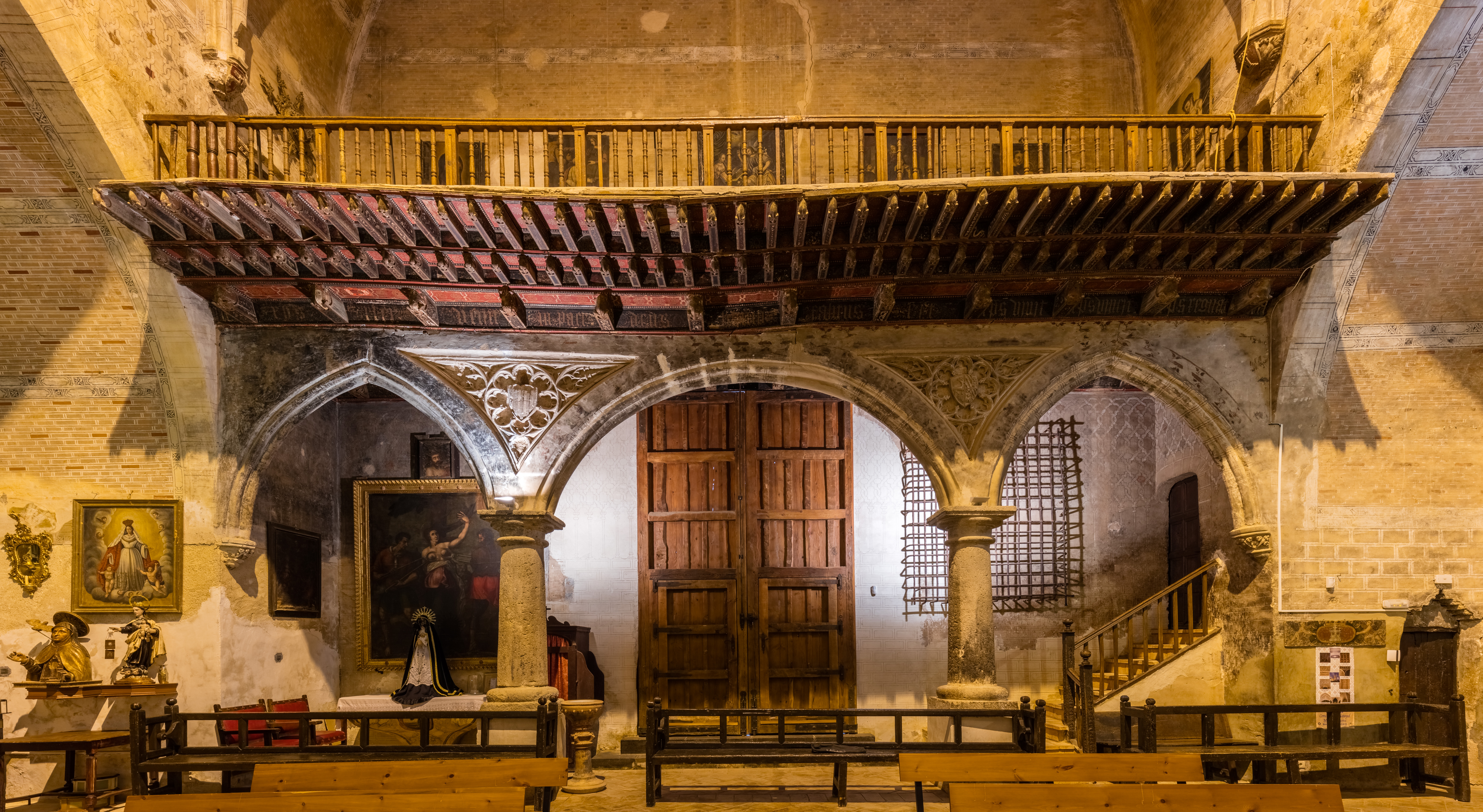 Interior of the church of St Felix, Torralba de Ribota, province of Zaragoza, Spain. The church, of mudéjar and late gothic style was built between 1367 and 1420. The church is a national heritage monument in Spain (known as Bien de Interés Cultural) since 2006.